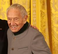 Painter Andrew Wyeth receiving the National Medal of Arts from US President George W. Bush (cropped).